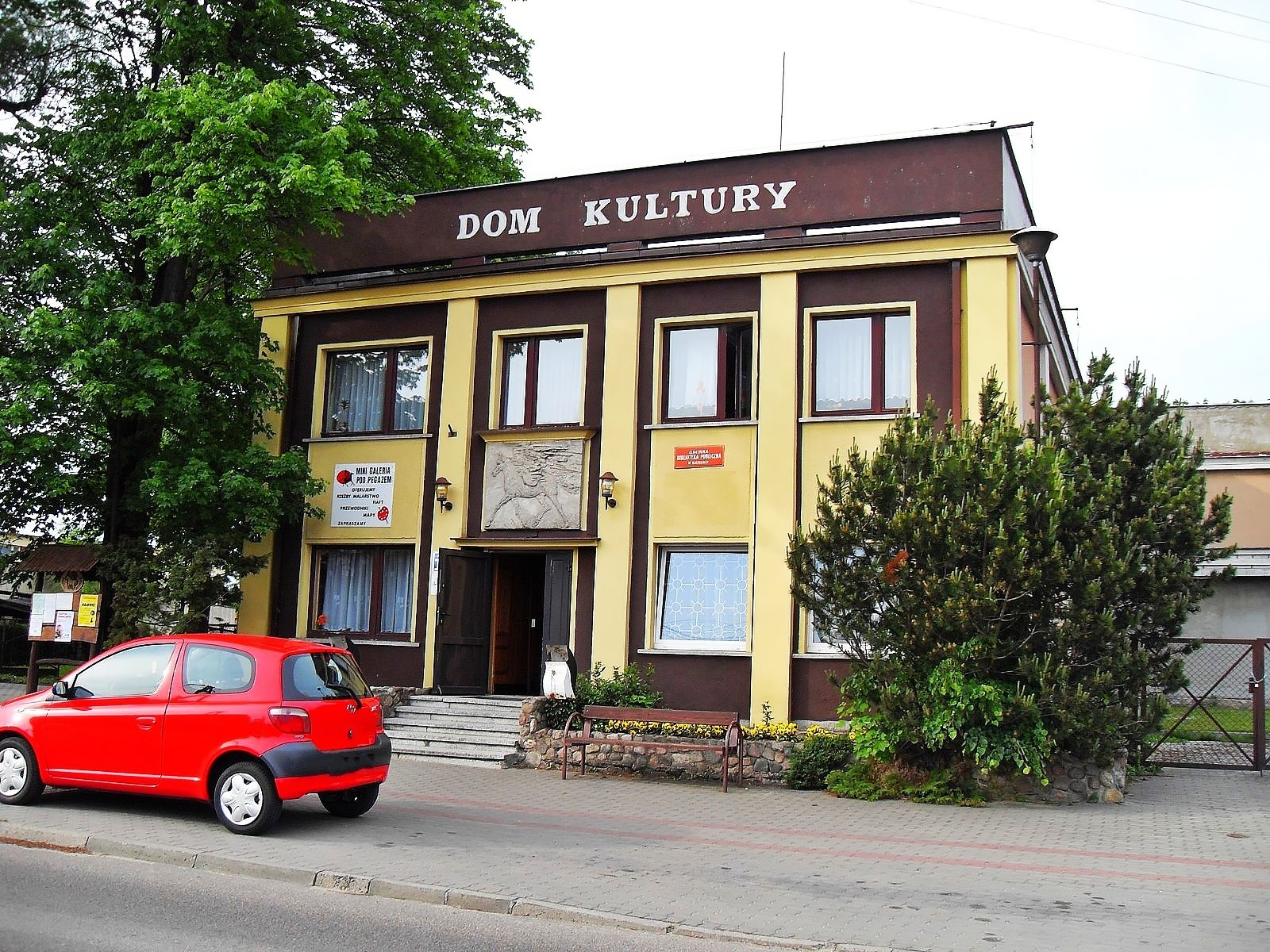 Municipal Building Cultural Centre